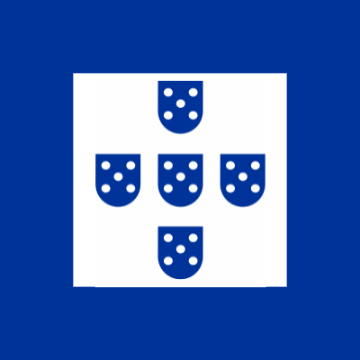 The flag used by Salazar's political party during his regime.